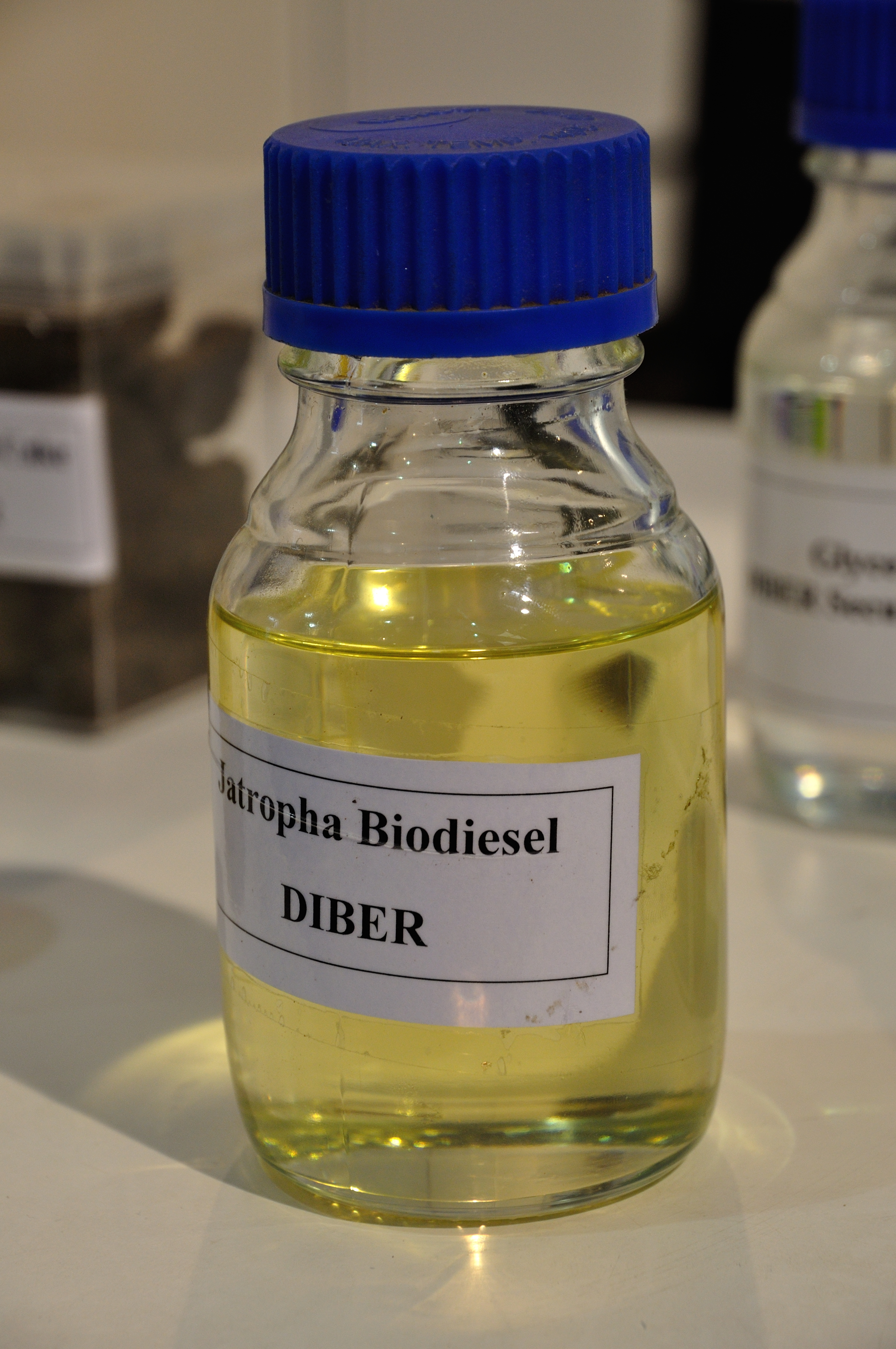 It is made by the 'Defence Research and Development Organisation', India or DRDO, shown at the 'Pride of India' exhibition, organised by the 'Indian Science Congress Association' on the occasion of the '100th Indian Science Congress' in Kolkata from 3rd to 7th january, 2013.